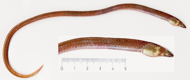 Dalophis imberbis collected in Spain (Barcellona).